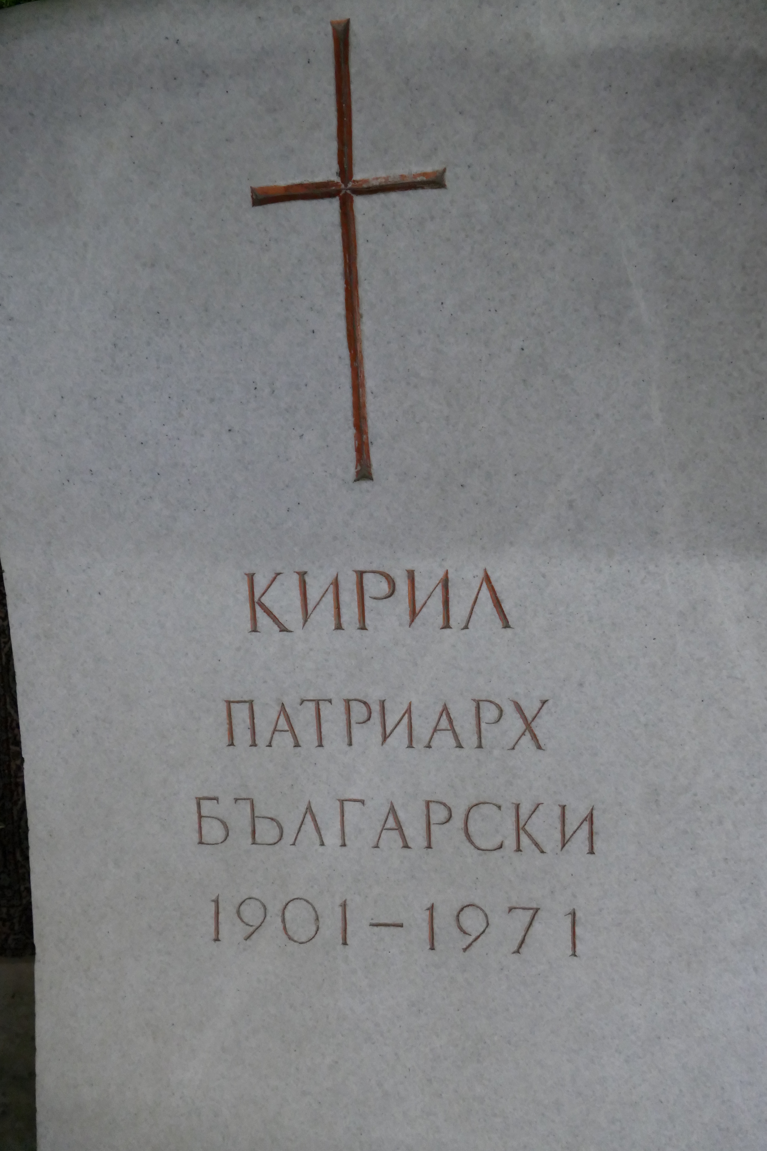 The gravestone of Patriarch Kiril in Bachkovo Monastery